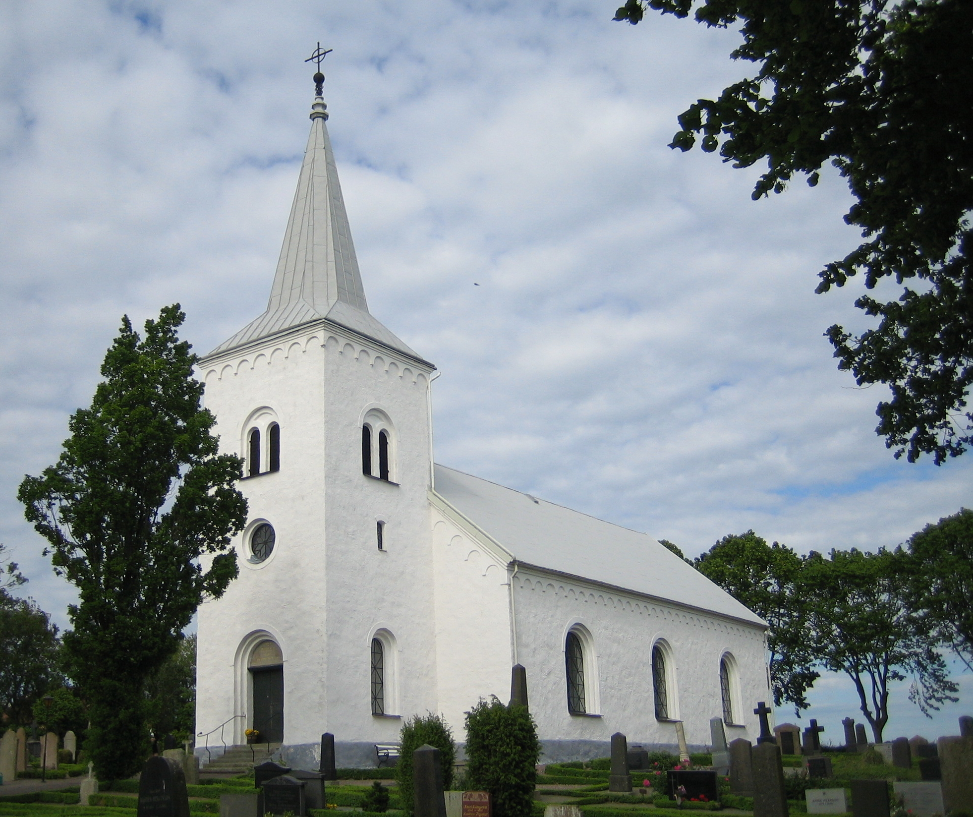 The church of Katslösa, Skåne, Sweden.